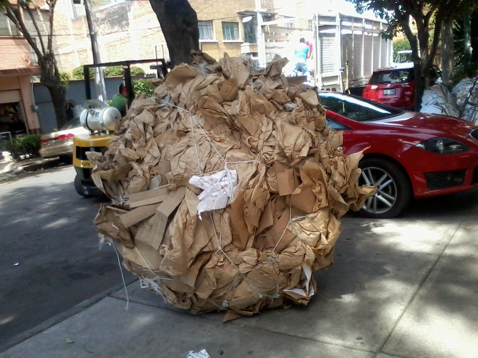 Package with cardboard remains from a printing company (colonia Algarín, Mexico City).